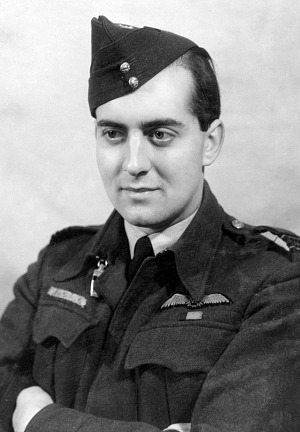 Photograph of Flight Lieutenant Michael Beetham taken in May 1944 whilst Beetham was serving on No. 50 Squadron RAF.